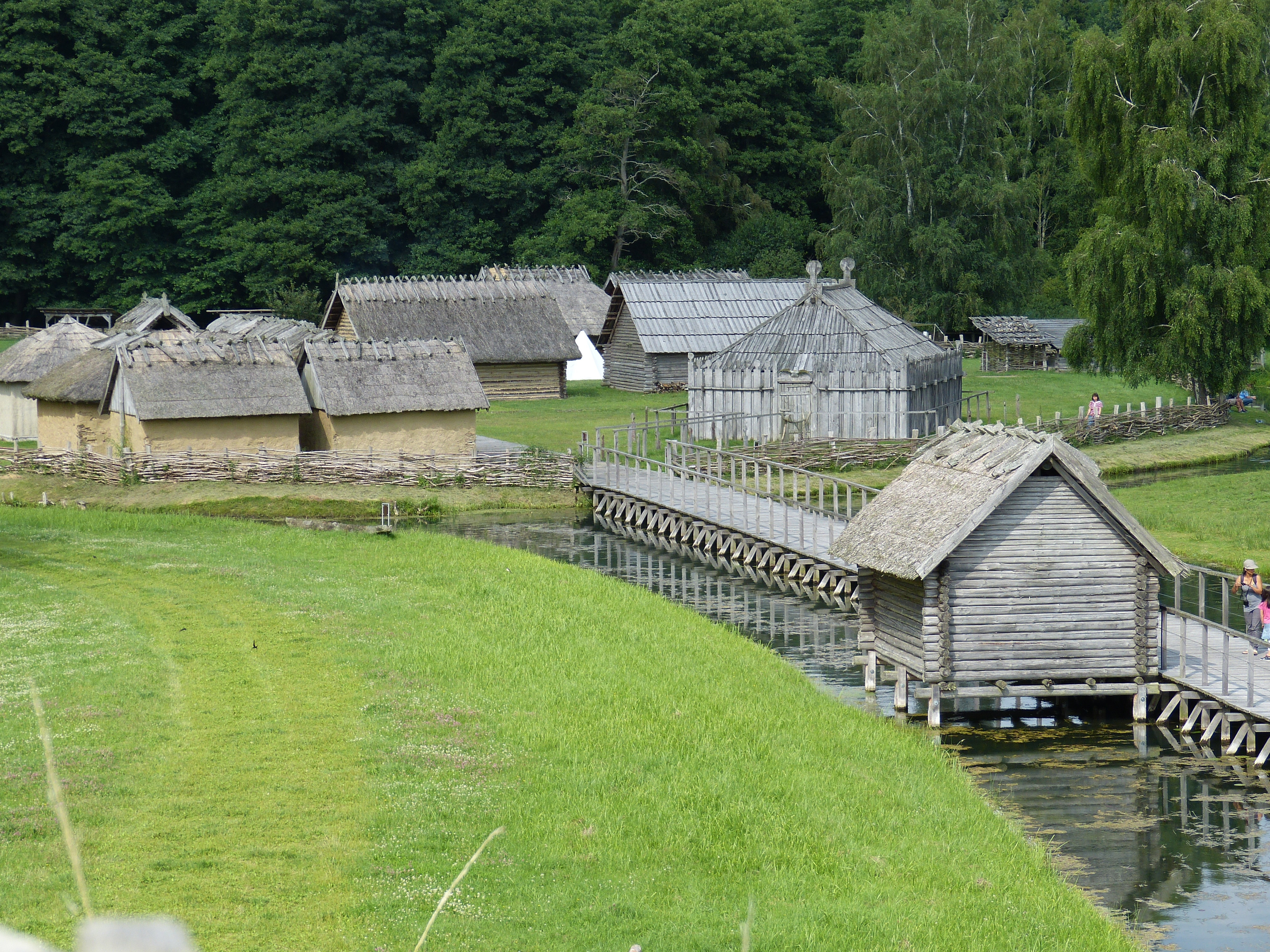 Groß Raden ( Mecklenburg ). Reconstruction of a Slavic settlement ( 9th/10th century ).